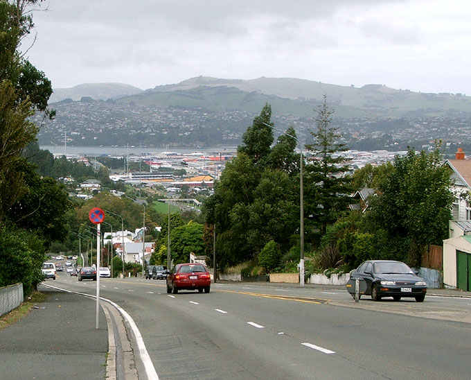 Looking down into the city of Dunedin, New Zealand, from Lookout Point. Photograph by James Dignan (User:Grutness), 22 March 2009.